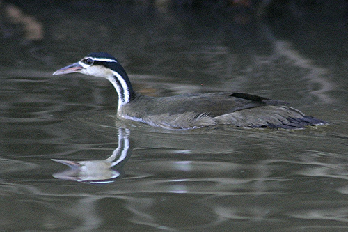 A Sungrebe swimming, Pixaim River, Mato Grosso do Sul, Pantanal of Brazil.